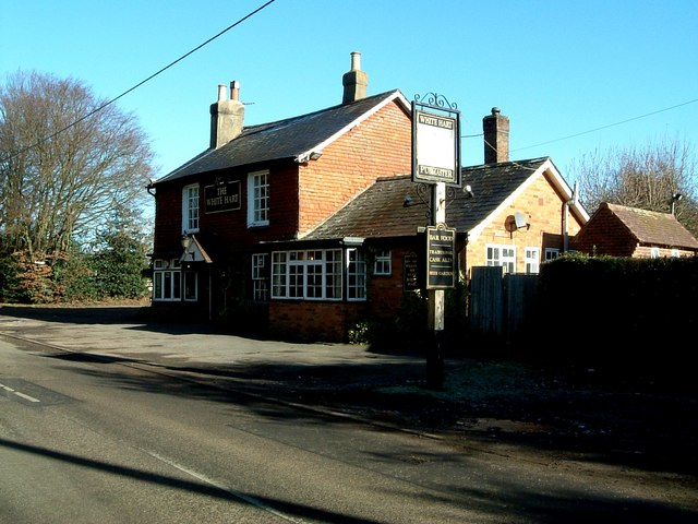 The White Hart, Whelpley Hill. This pub is just out of the main part of the village. This view is looking due North.